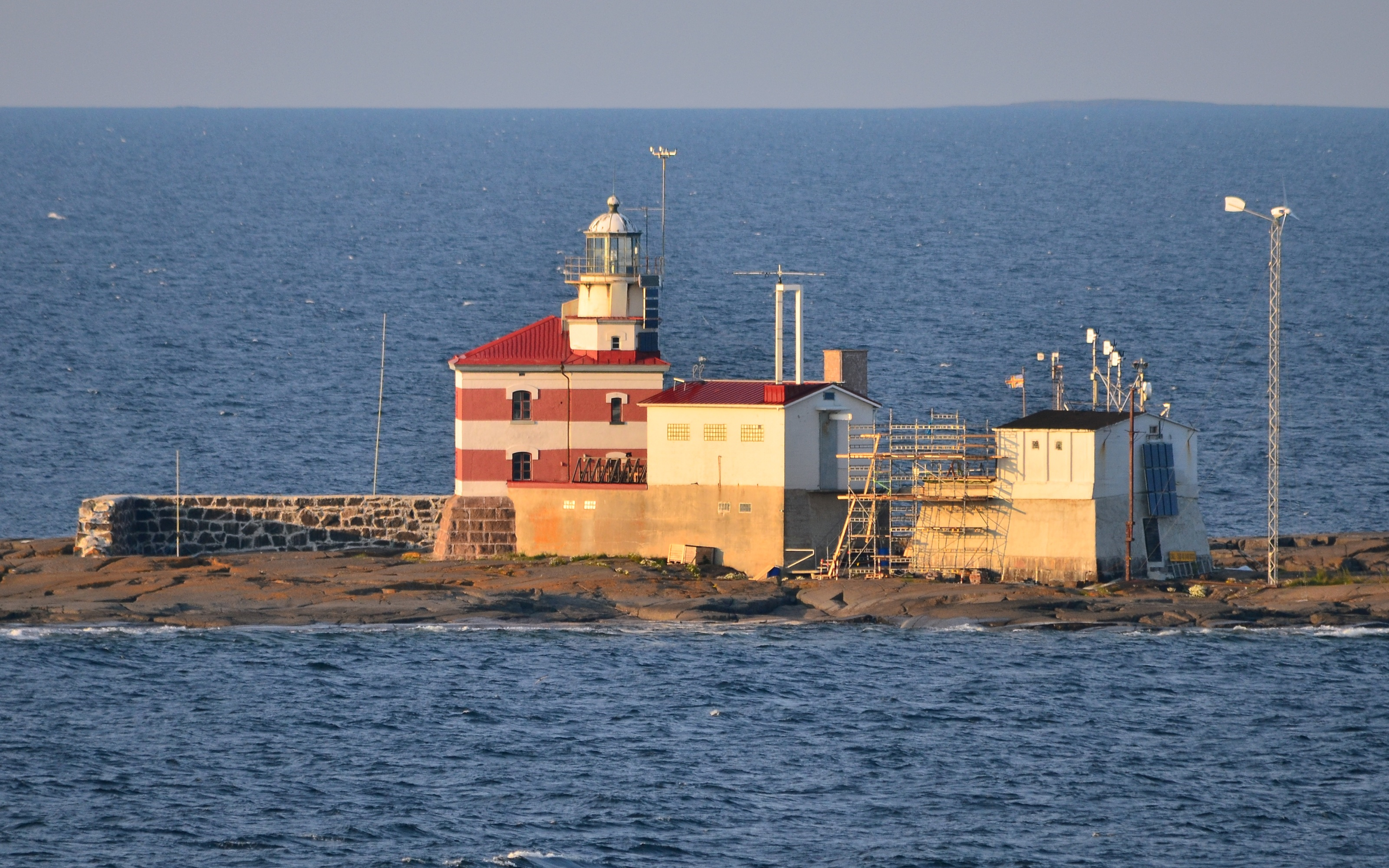 The lighthouse on the islet Märket in the Sea of Åland. This island defines the border between Sweden and Finland.